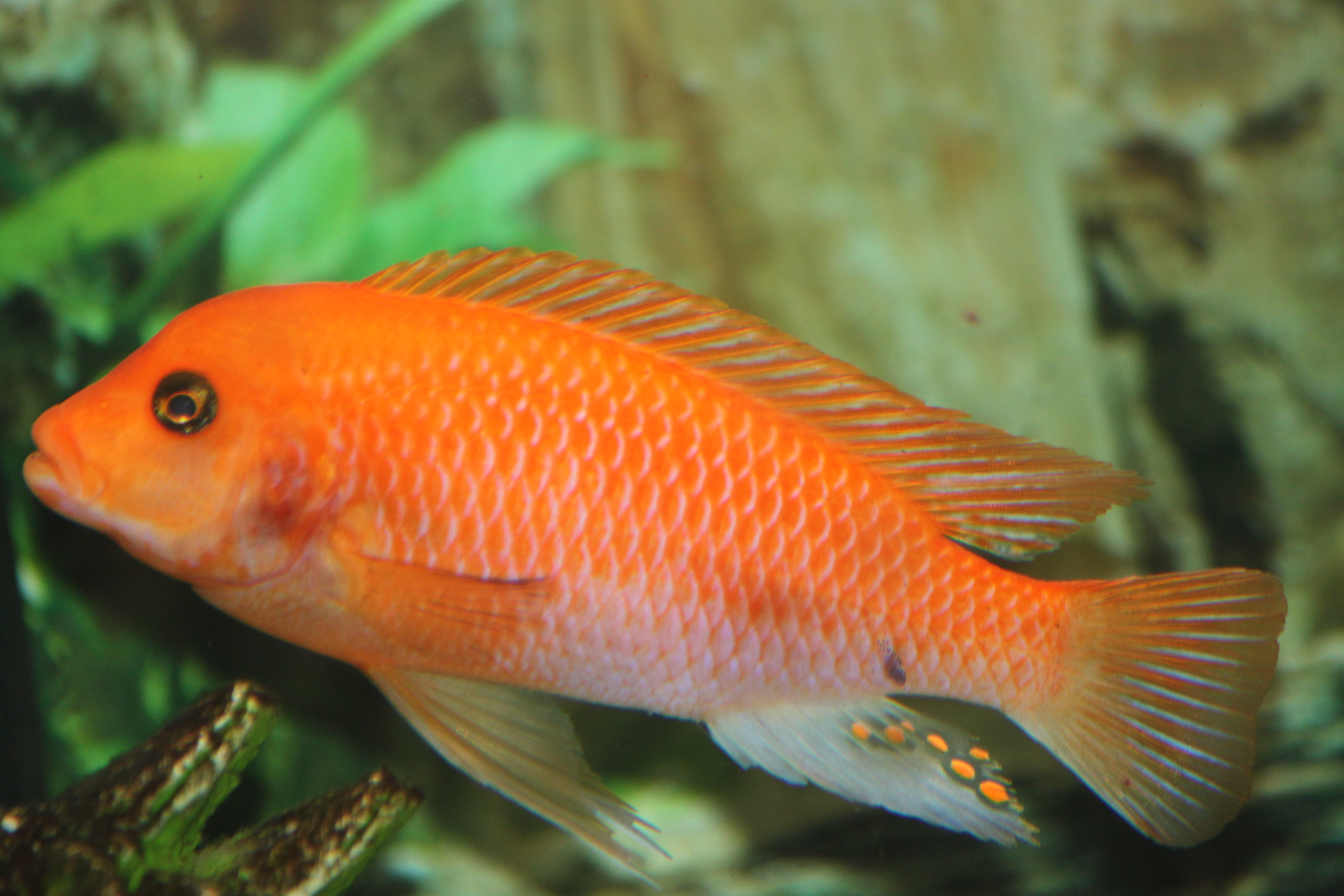 Picture of Male Red Zebra Cichlid taken after feeding